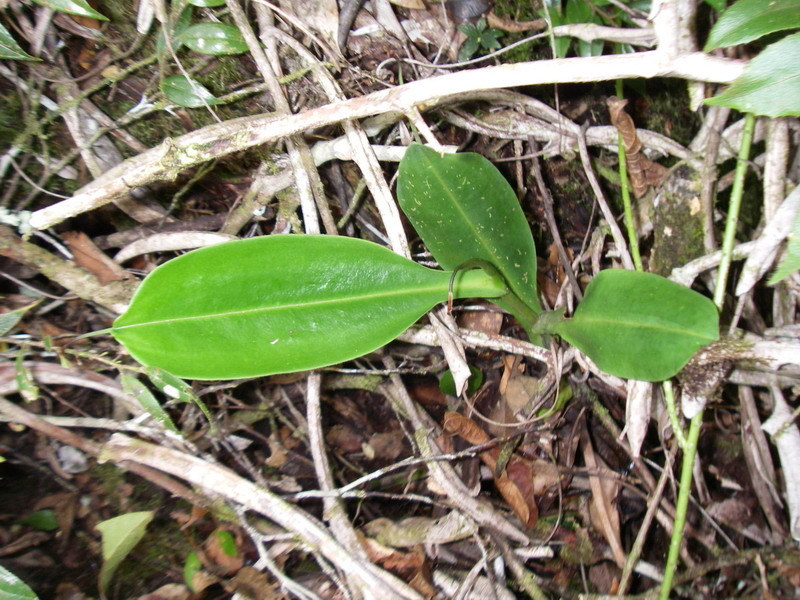 Nepenthes rigidifolia 1,600 m